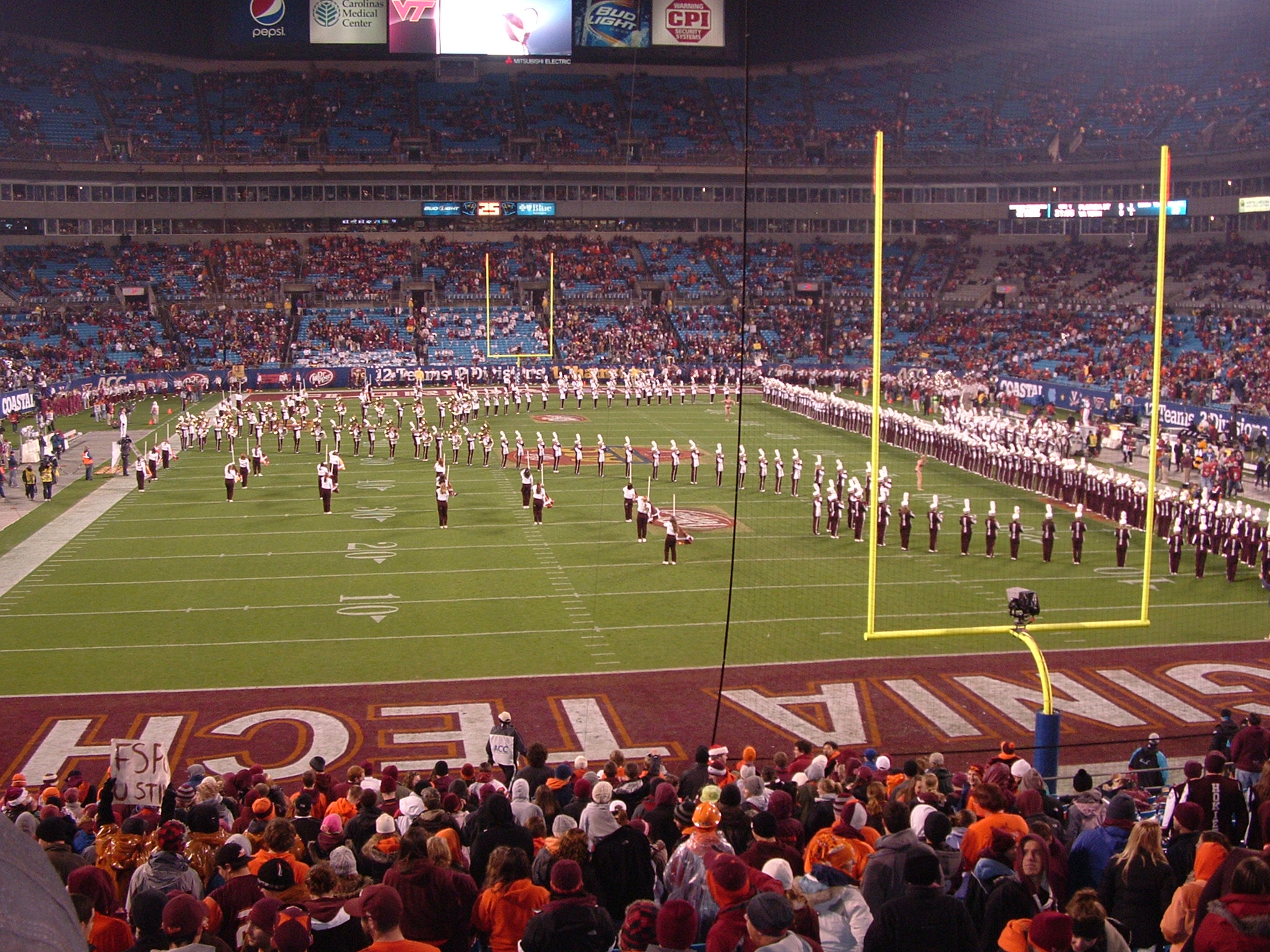 Virginia Tech Marching Band prior to the 2010 ACC Championship Game